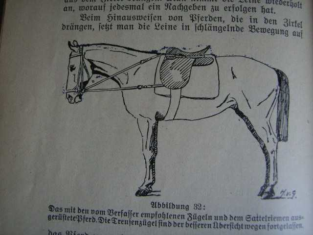 Reins Lauffer